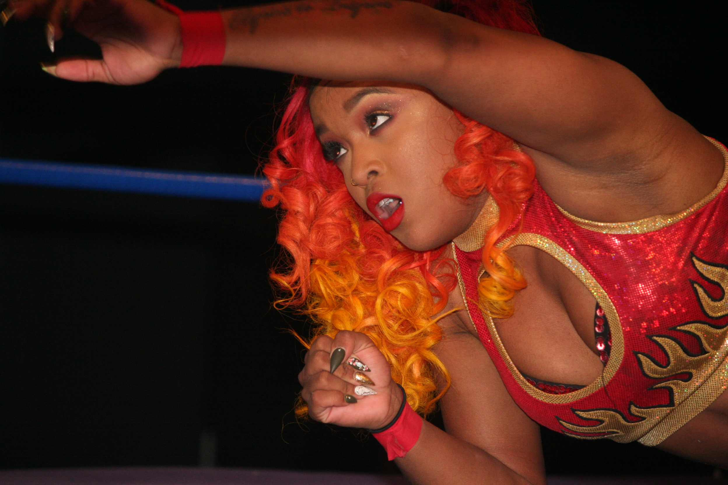 Kiera Hogan in the ring at a Queens of Combat event in March 2018.